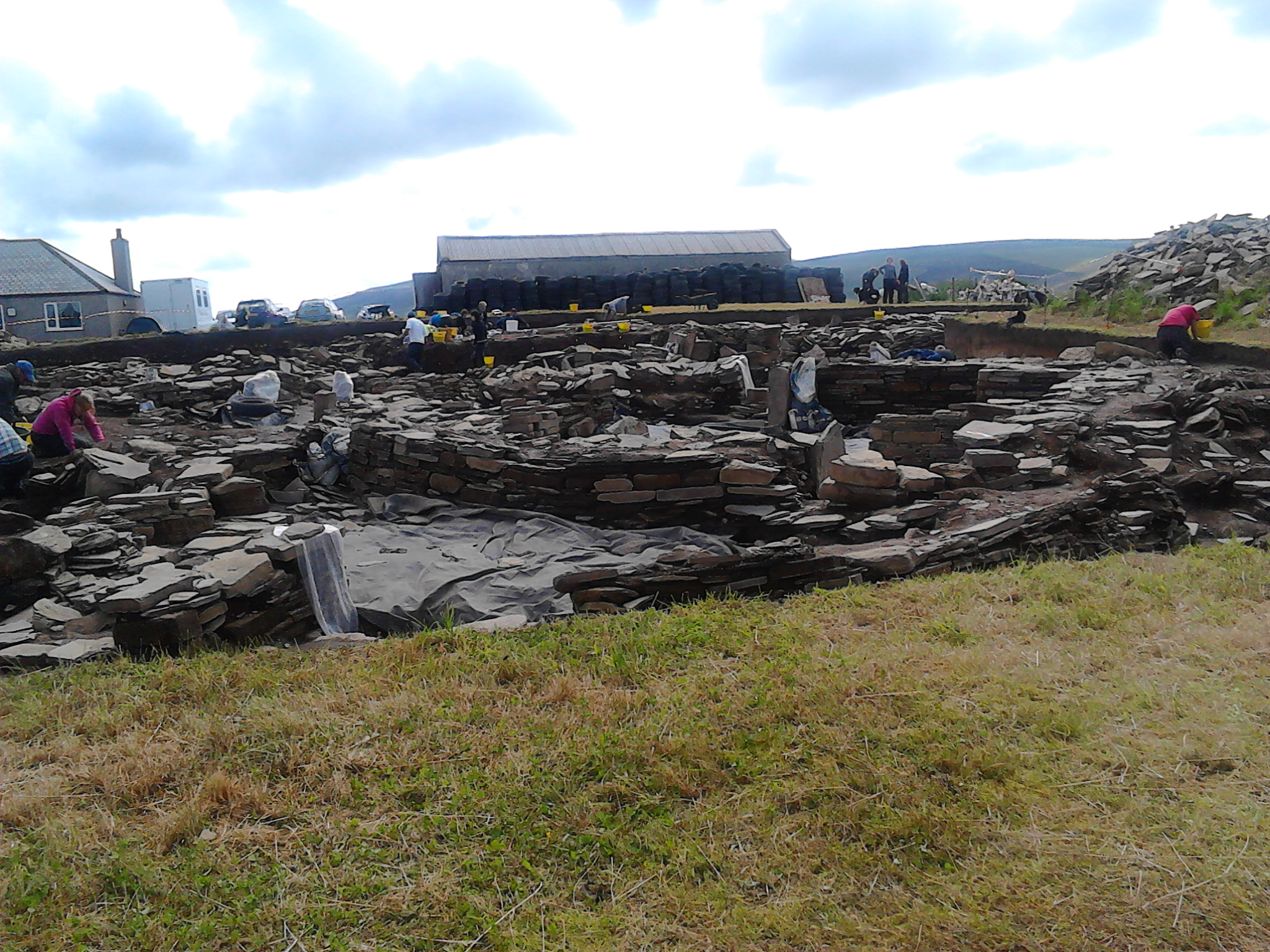 Ness of Brodgar dig 6.7.16. Another view across structure #1, this time featuring the tarpaulins they use to cover the archaeology while the site's closed for nine months of the year. Along the barn wall you can see stacks of tyres. These are used to weigh down the tarpaulins.